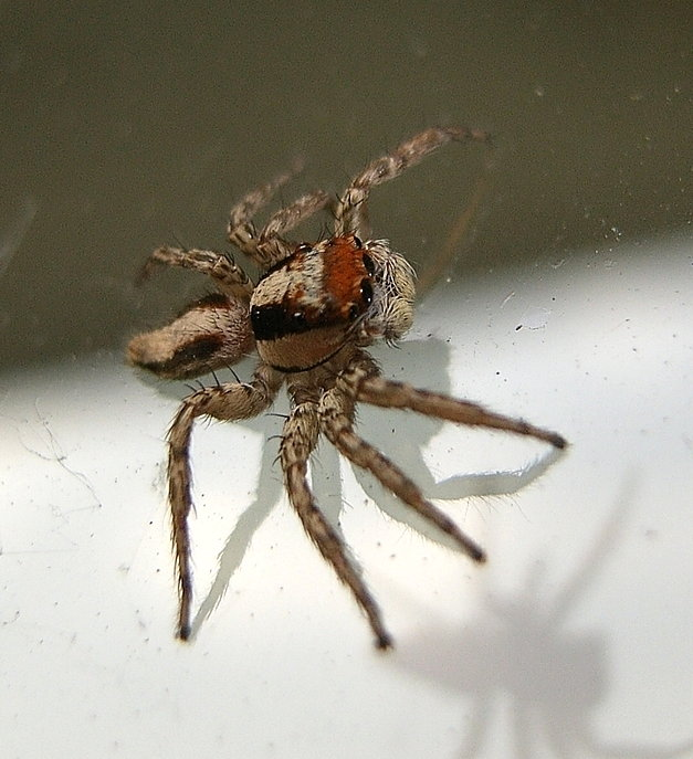 ミスジハエトリ Plexippus setipes Male (verified by Akio Tanikawa) Location 神戸市西区 Nishi-ku, KOBE, Japan Copyright OpenCage